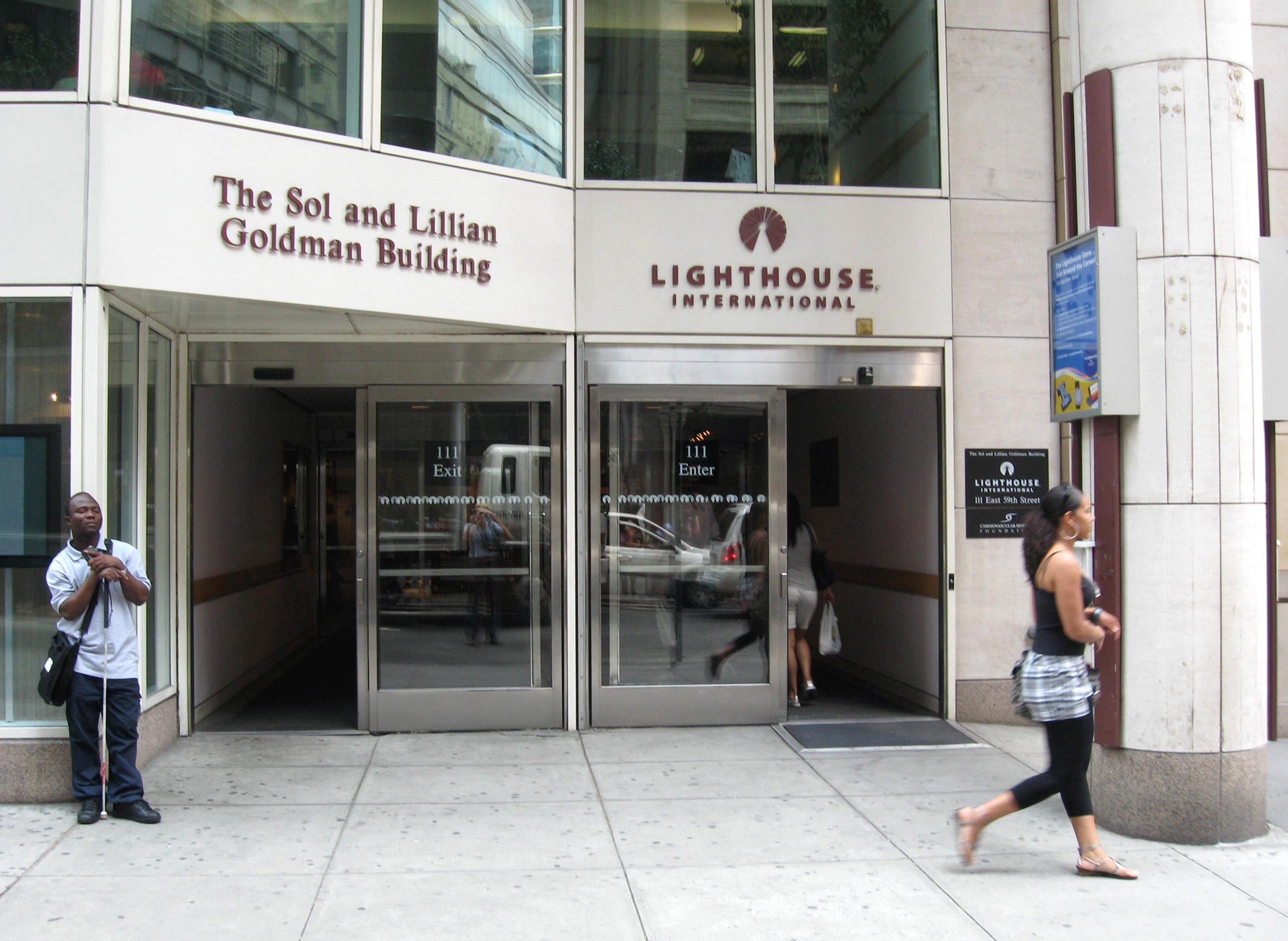 111 East 59th Street headquarters of Lighthouse for International, founded in 1905. HQ building is designed for use by people with a variety of disabilities. The organization serves the blind, and funds scientific research into causes and cures of blindness.